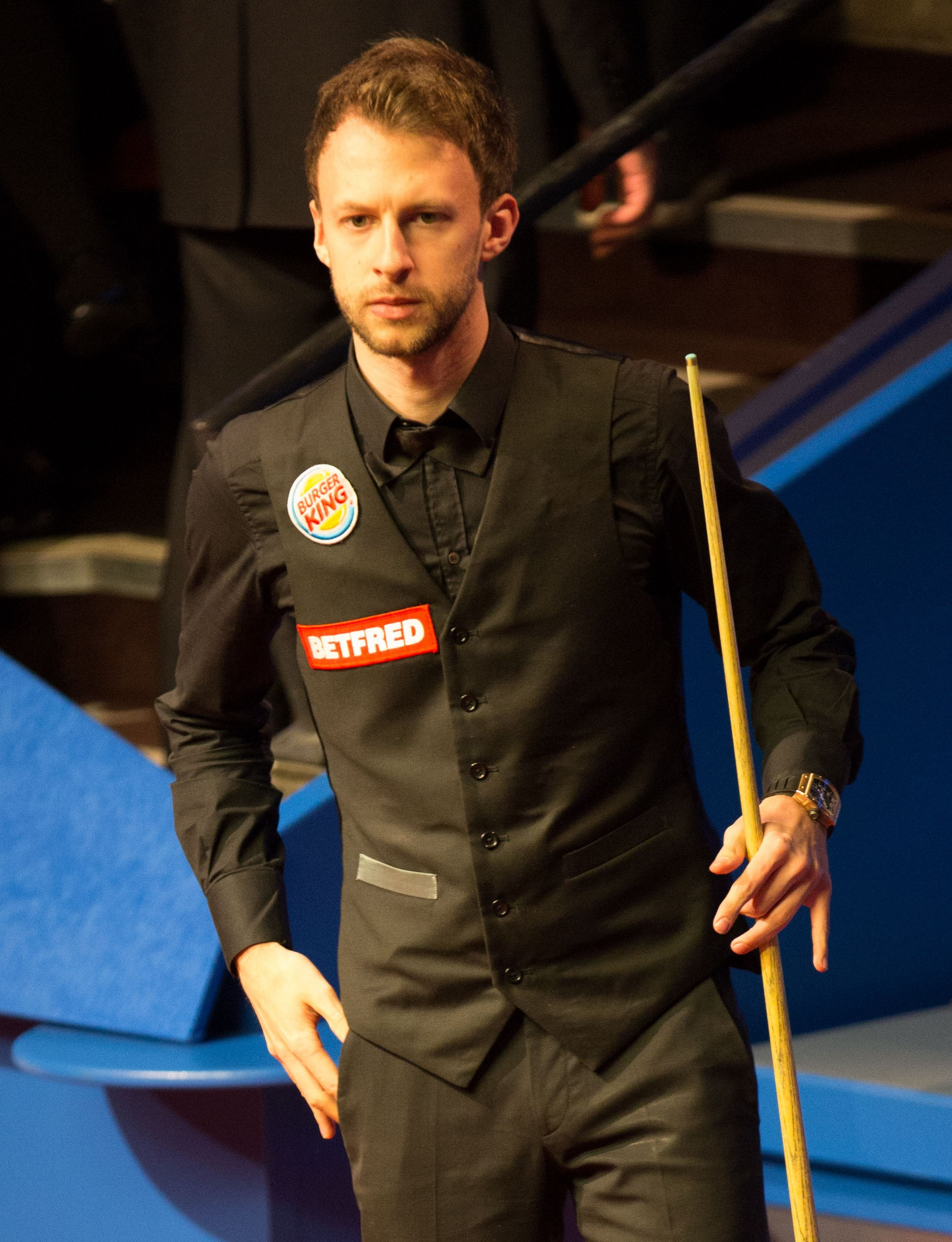 World Championship at Crucible Theatre 2015